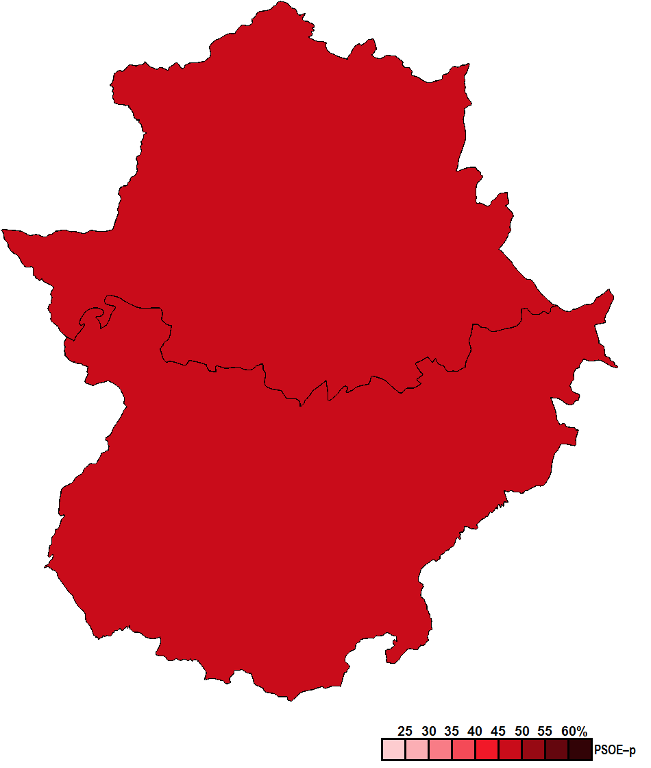 Provincial results for the 1999 Extremaduran regional election.